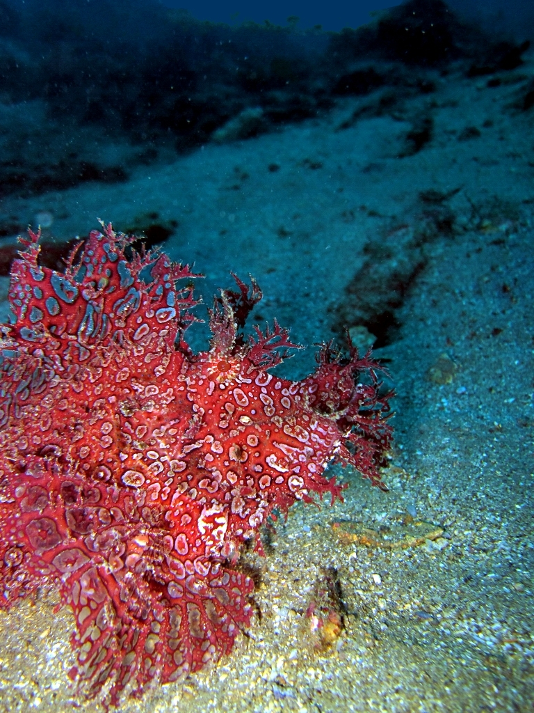 This weedy scorpionfish was found in the sandy bottom of a famous diving site named "Ho-Mei" located at Long-Dong Bay, northeast coast Taiwan. The photo was taken by Vincent C. Chen, one of the regular contributors to EZDive magazine.